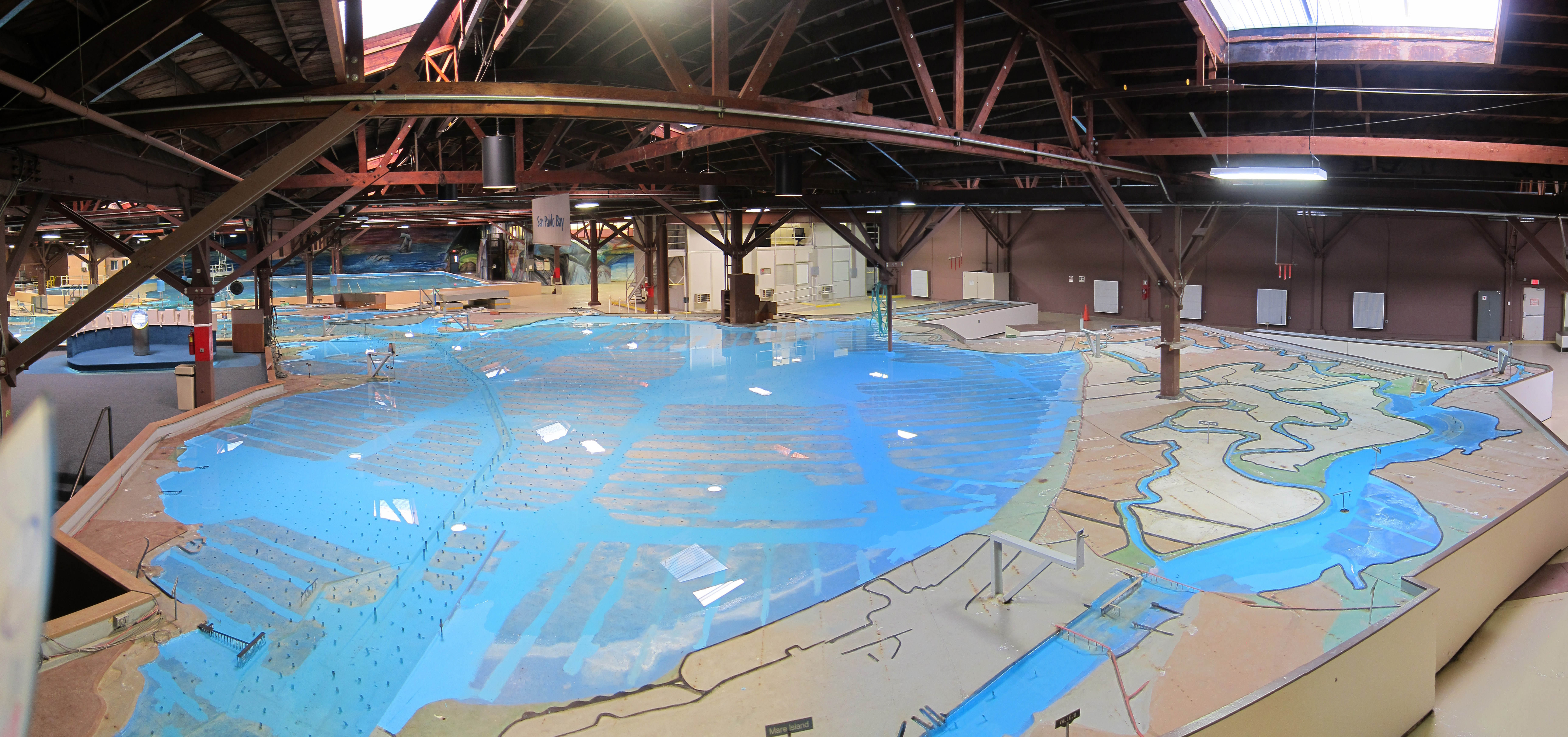 A segmented panorama of the U.S. Army Corps of Engineers Bay Model focused on the area of the model representing the San Pablo Bay. The original images were taken on February 9, 2012. The Golden Gate Bridge and the area representing the San Francisco Bay can be seen at the far left above the bank of visitor information handsets.